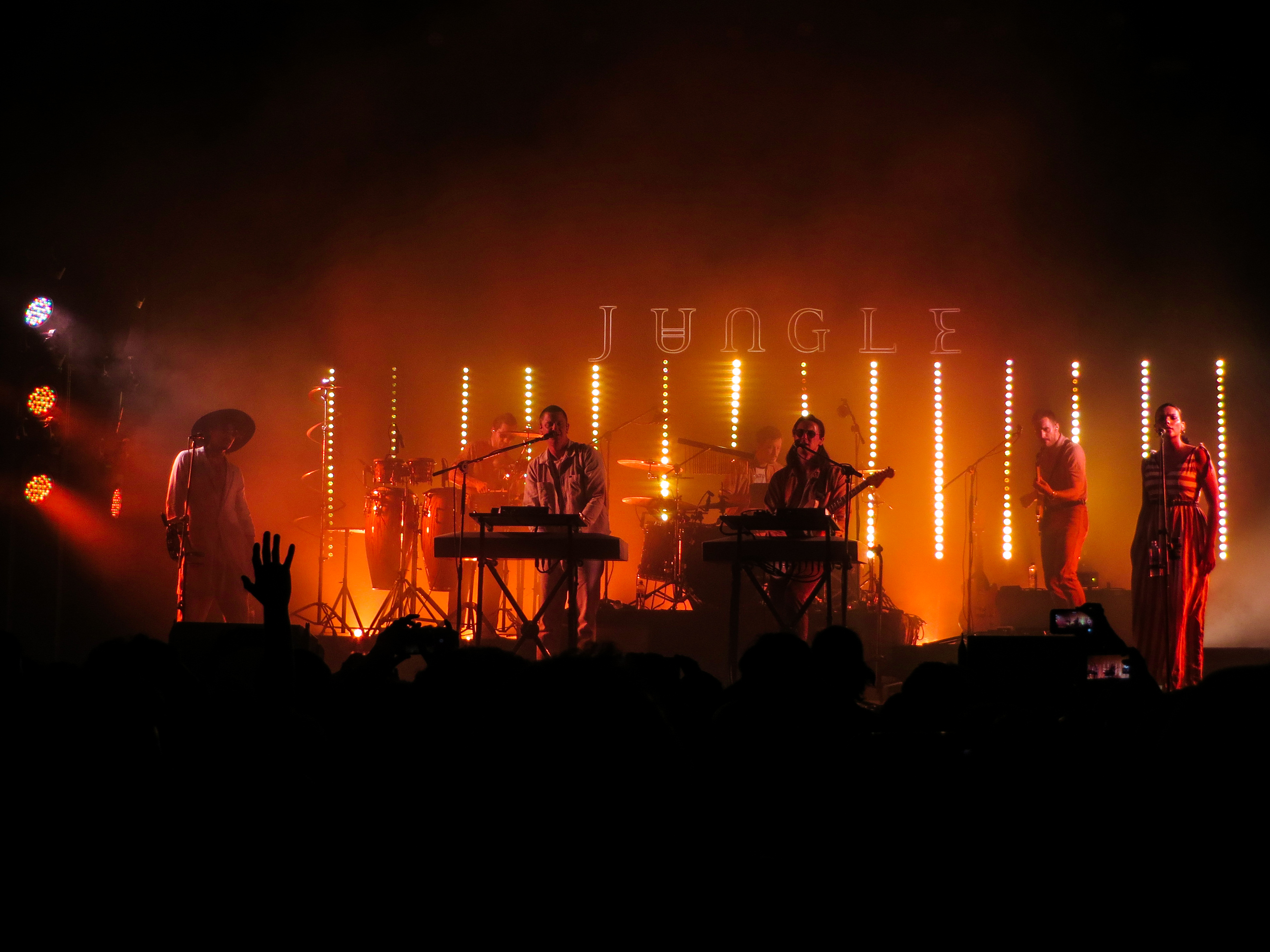 Jungle band playing live in Bogota DC, Colombia the 11th May 2019